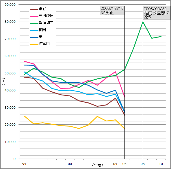 Vehicle ridership of Kamaya, Mikawa Ogihara, Hekikai Horiuchi, Mukuoka, Futto and Yatomiguchi Station.